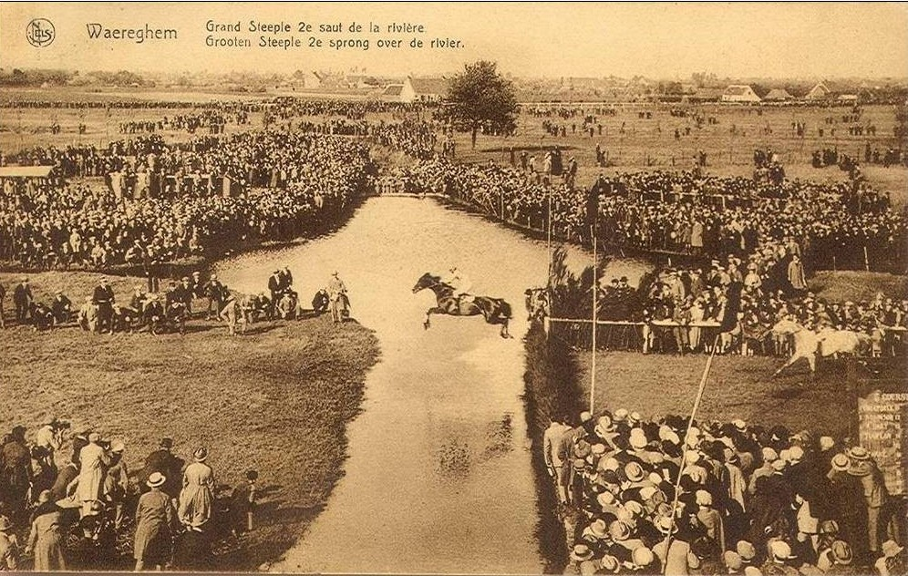 Postcard from 1920 of the Waregem Koerse. It is a scan from a postcard form 1920 that a friend of mine has because his house is on it in the background